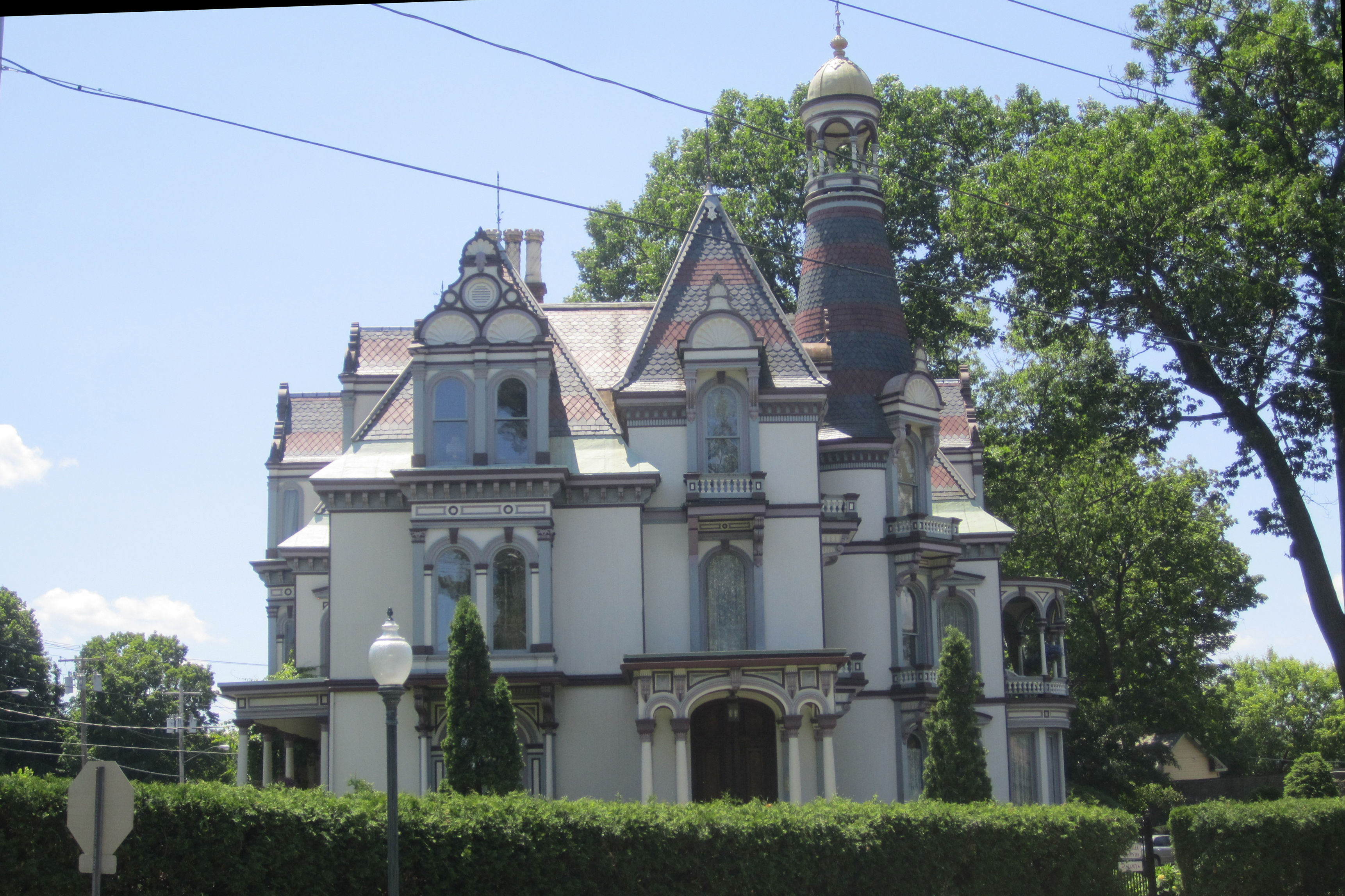 Batcheller Mansion, 20 Circular Street, Saratoga Springs NY. (1873) Designed by Nichols & Halcott, Albany NY.